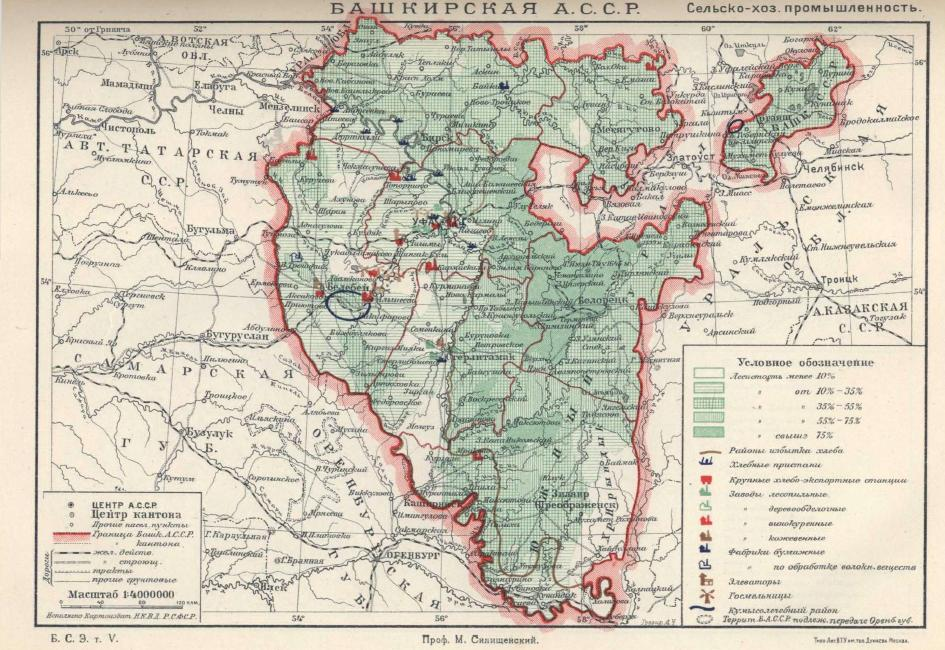 BASSR Башҡортса: Башҡорт Автономиялы Совет Социалистик Республикаhы (Башҡорт АССР-ы, БАССР)